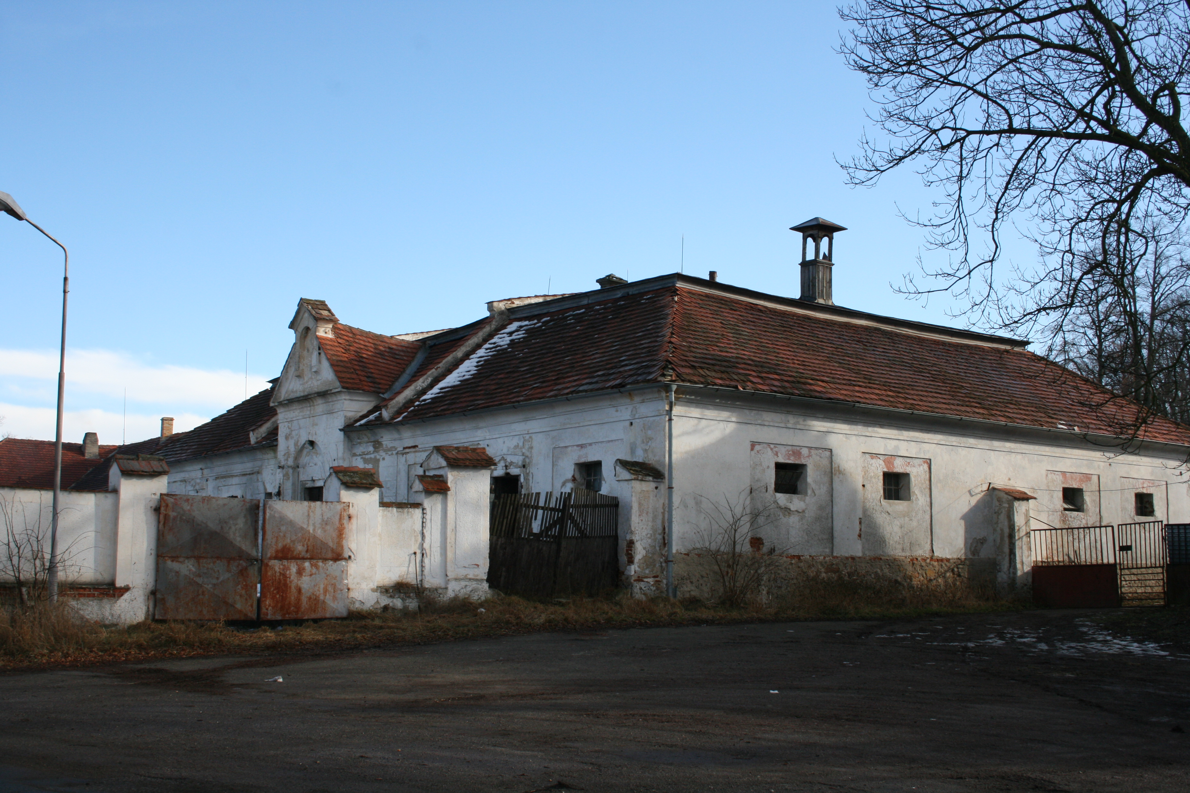 Bzí, part of the Dolní Bukovsko Village in České Budějovice District, Czech Republic. Fort.